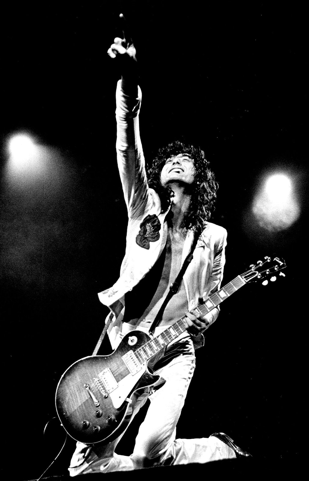 Led Zeppelin's Jimmy Page peforming live in 1977.